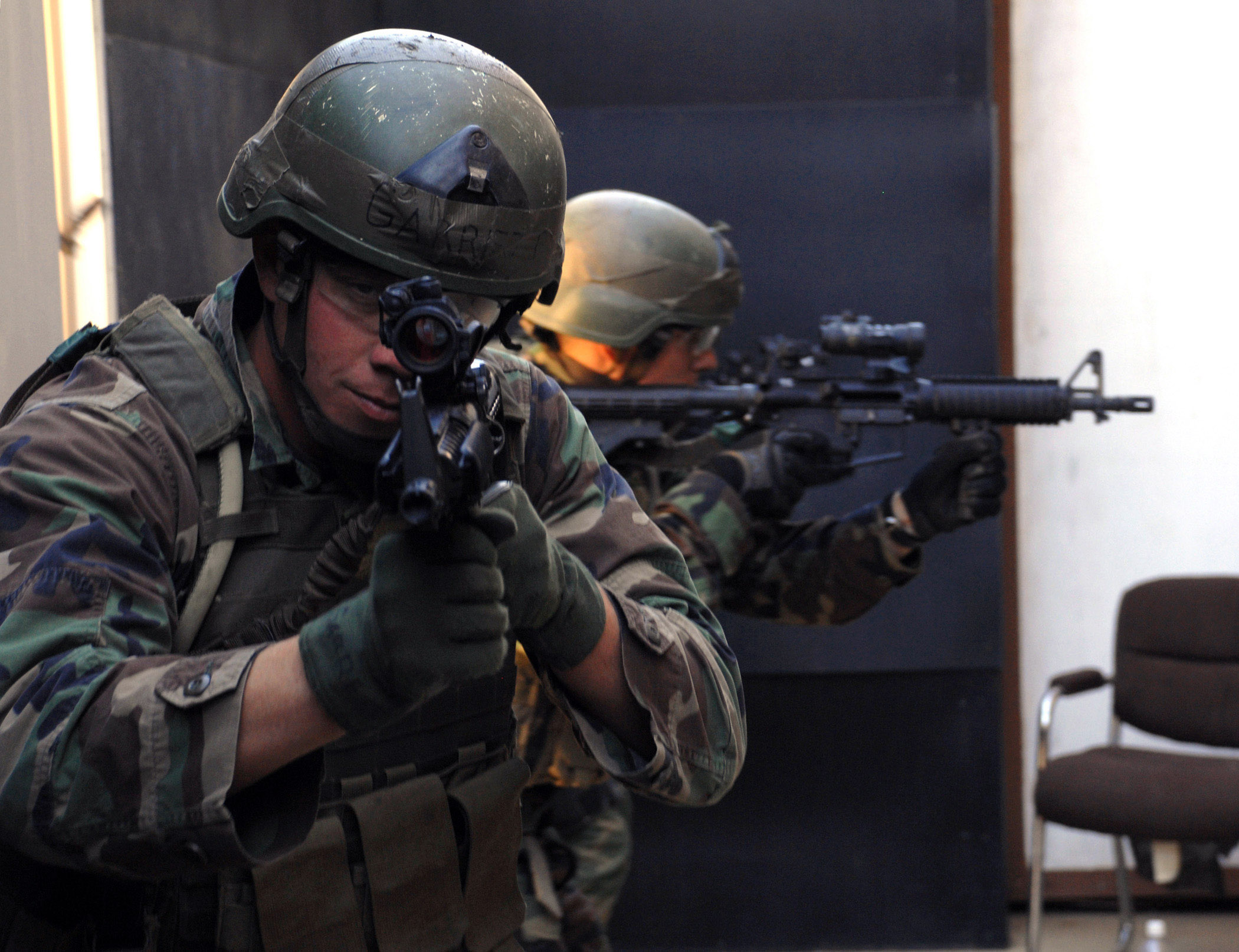 CAMPO, Calif. (Oct. 19, 2007) - SEAL trainees scan the room for possible threats as part of a SEAL qualification training exercise. Students spend two weeks learning the basics of securing a room from possible threats. U.S. Navy photo by Mass Communication Specialist 2nd Class Christopher Menzie (RELEASED)